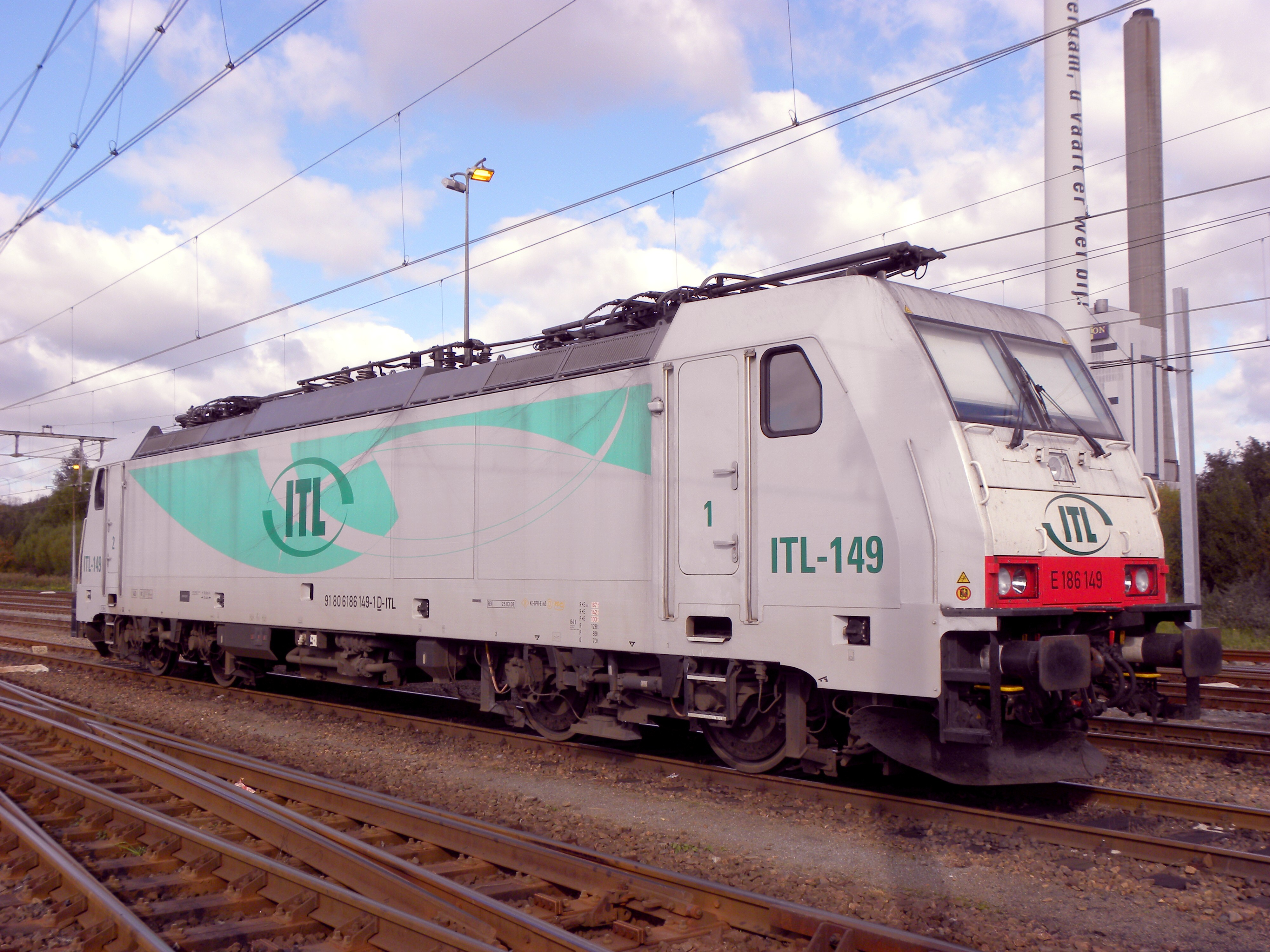 CBRail owned Bombardier TRAXX F140MS2 registered as 186-149 by ITL (Germany), still in ITL livery. This loco is homologated for D/A/NL/BE